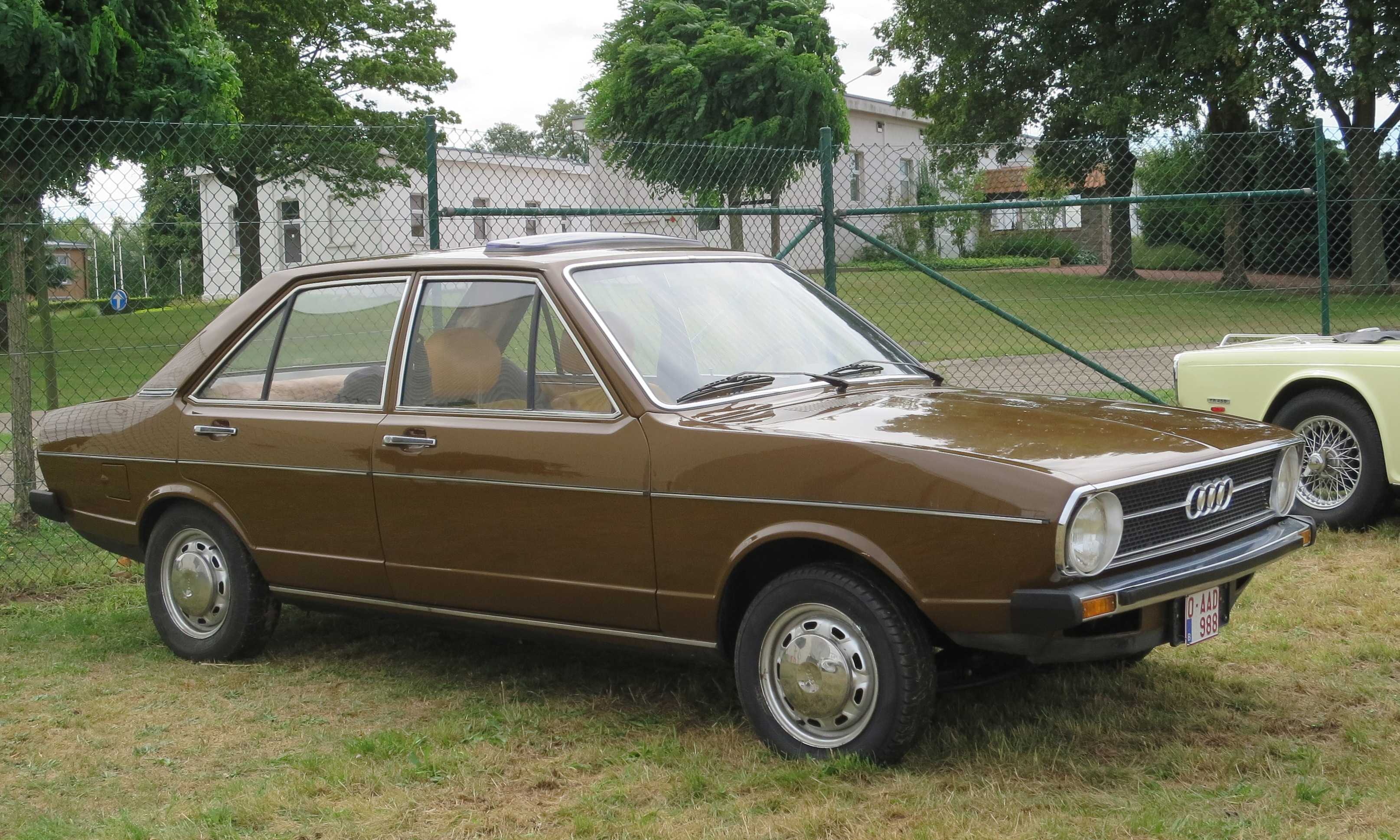 Audi 80 (ca 1975) in Belgium